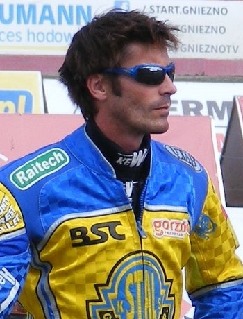 Daniel Nermark in season 2013